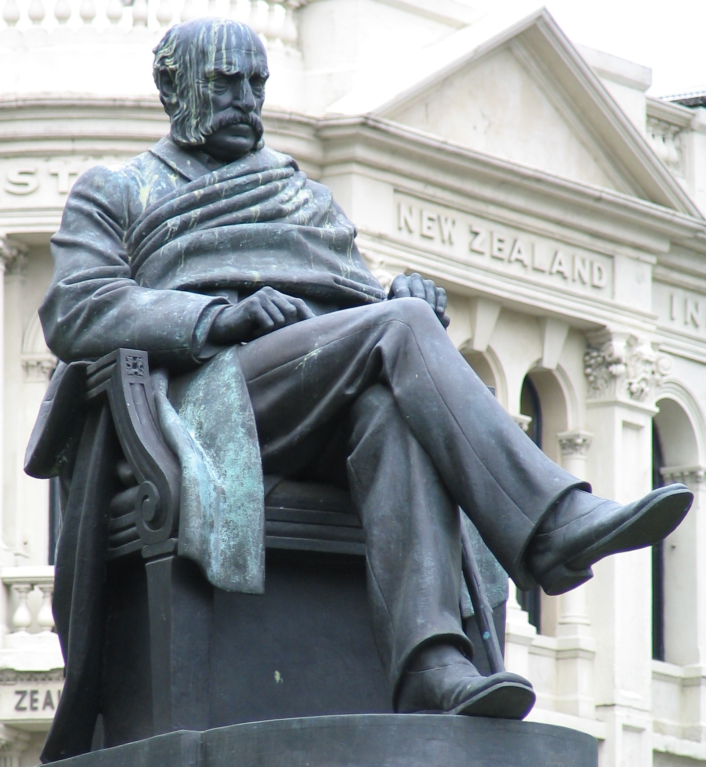 Statue of Reverend Dr. Donald McNaughton Stuart, at Queens Gardens in Dunedin, New Zealand. The statue was unveiled in June 1898, and the sculptor died in 1935[1], putting the statue in PD in both the U.S. and New Zealand. New Zealand Historic Places Trust Register number: 4758. Stuart was the first minister of Knox Church (1860 – 1894). The building in the background is Queens Gardens Court